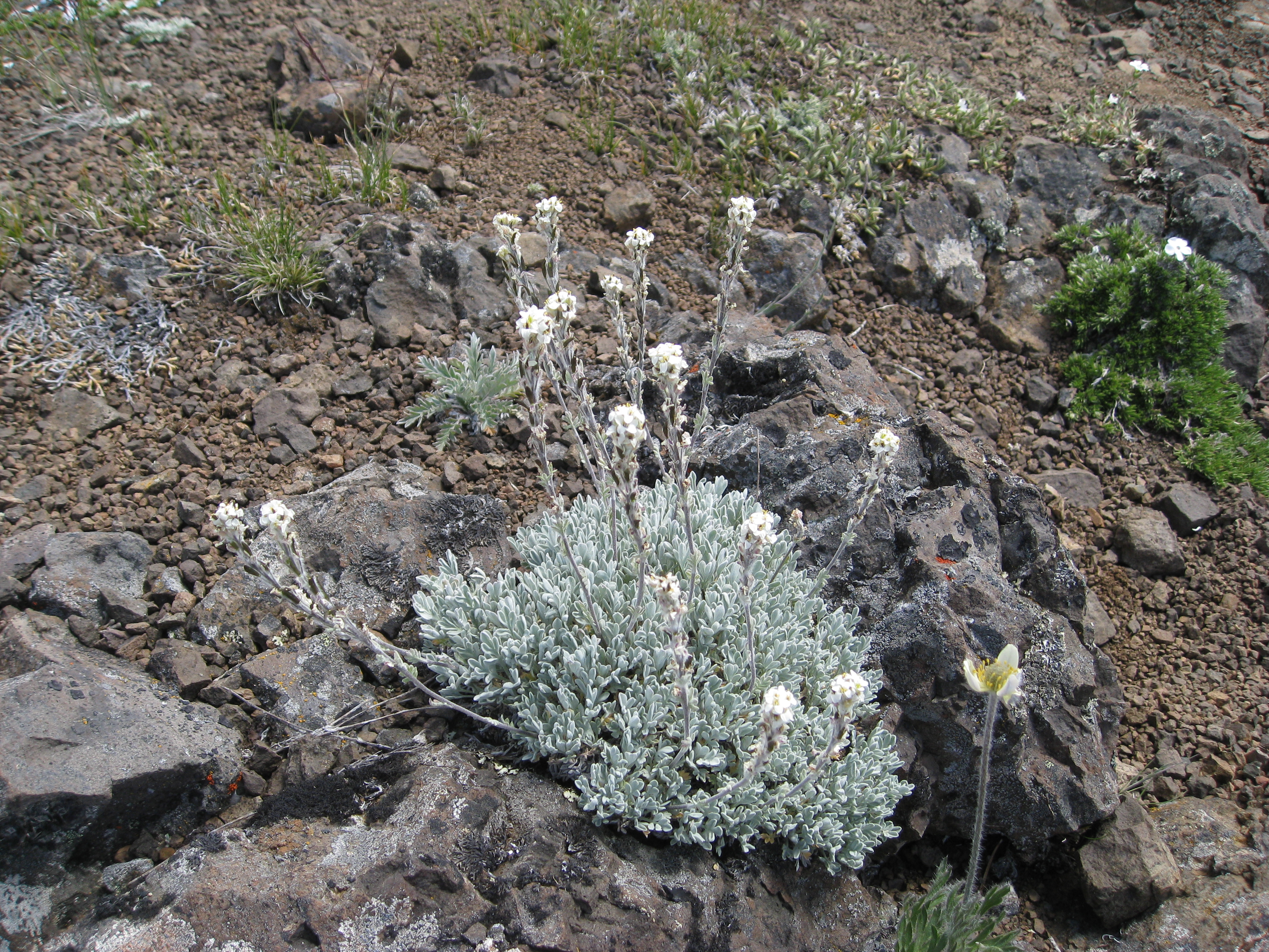 Smelowskia calycina near North Summit, Mount Townsend, Olympic Mountains, Jefferson Co., Washington, USA: Elevation ~1890 meters, ~6200 feet